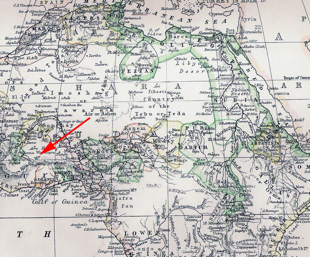 from 19th century atlas (1882) "Kong Mountains" marked (red arrow) "Kong-Berge" markiert (roter Pfeil)